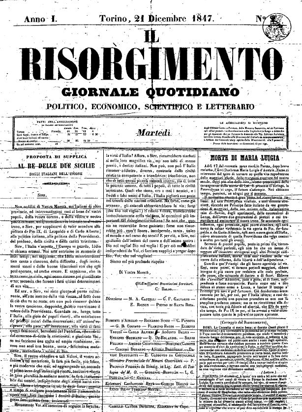 first page of risorgimental newspaper Il Risorgimento 1847